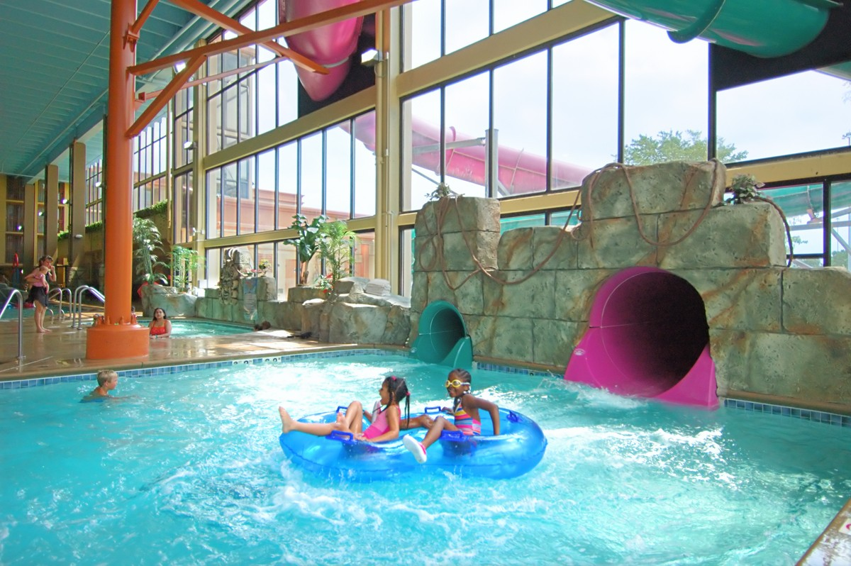 Chicagoland’s first indoor water park with 24,000 square feet of wet and wild fun for all ages. Zip down the body & tube slides & land in the plunge pool! The park also has an interactive water station for toddlers, bar/restaurant, game room and more!